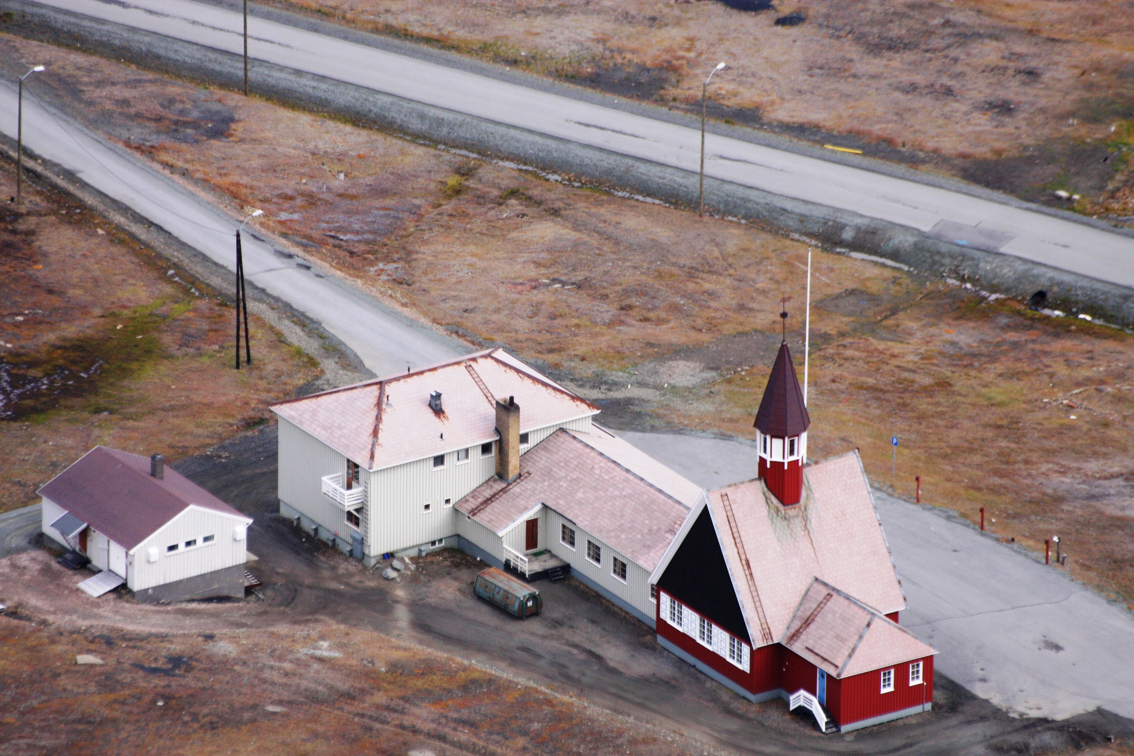 Svalbard church, Longyearbyen